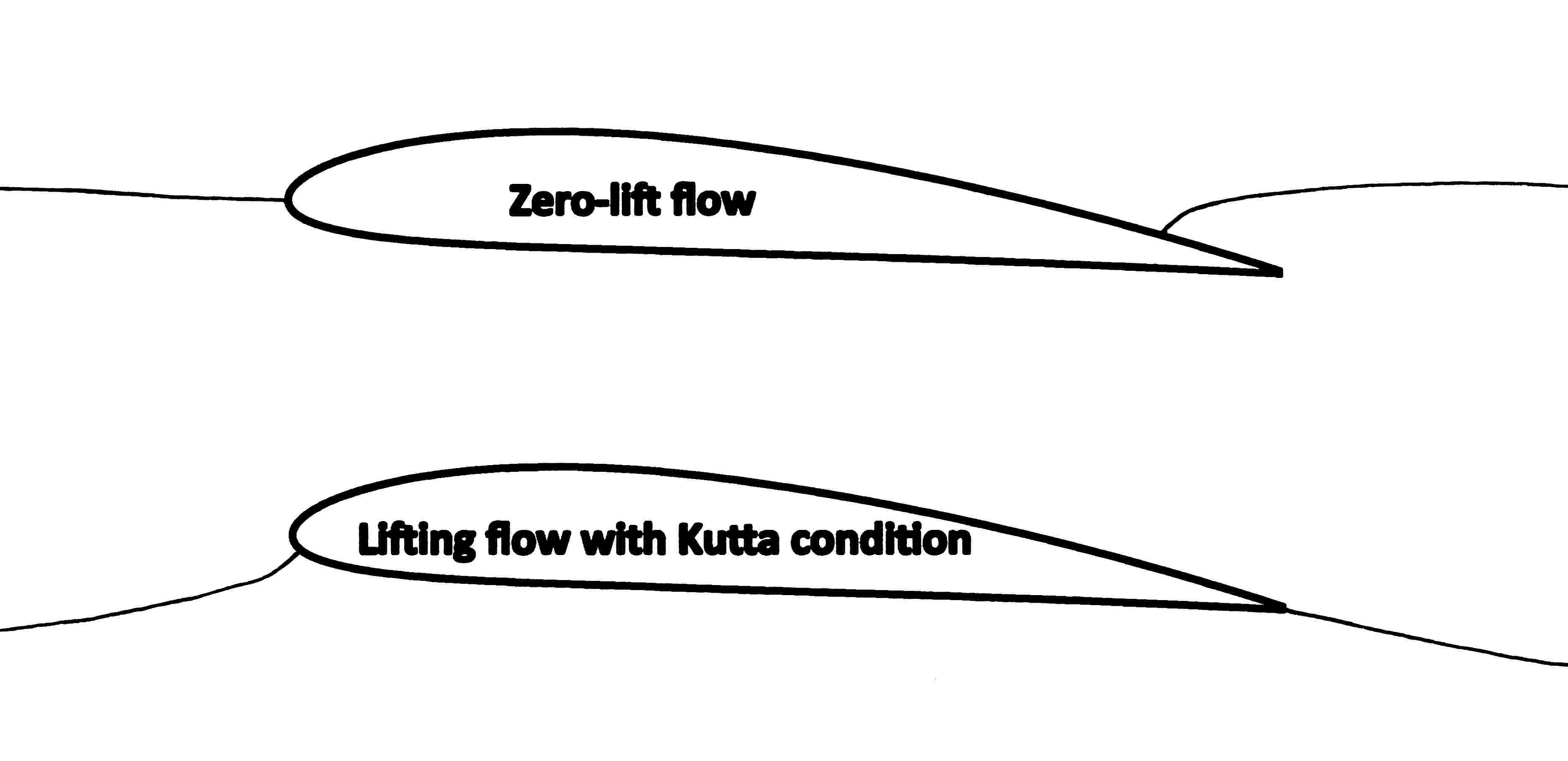 Illustration of the Kutta condition for an airfoil. Comparison of a non-lifting flow pattern and a lifting flow pattern with the Kutta condition Other information No